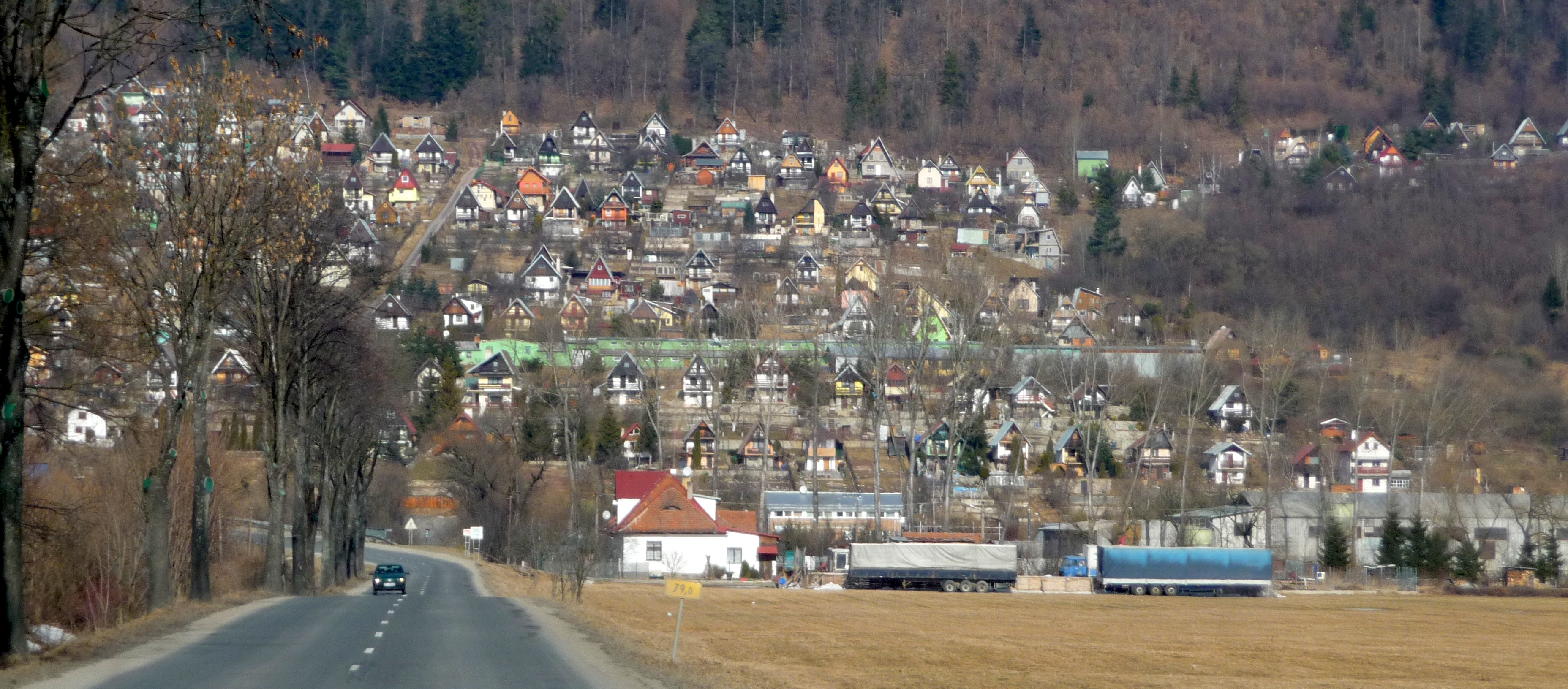 End of municipality Hranovnica, view to country cottages colony